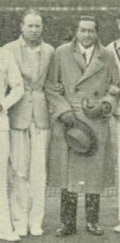 Norman Farquharson and Béla von Kehrling, 1929, Budapest, interuniversity tennis match, Cambridge against Budapest team